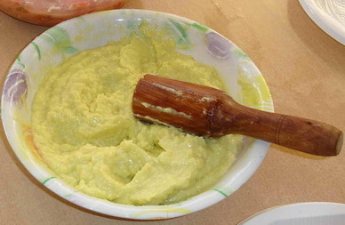 Toum, Garlic Sauce, Ioli... ready to eat Author, Charbel